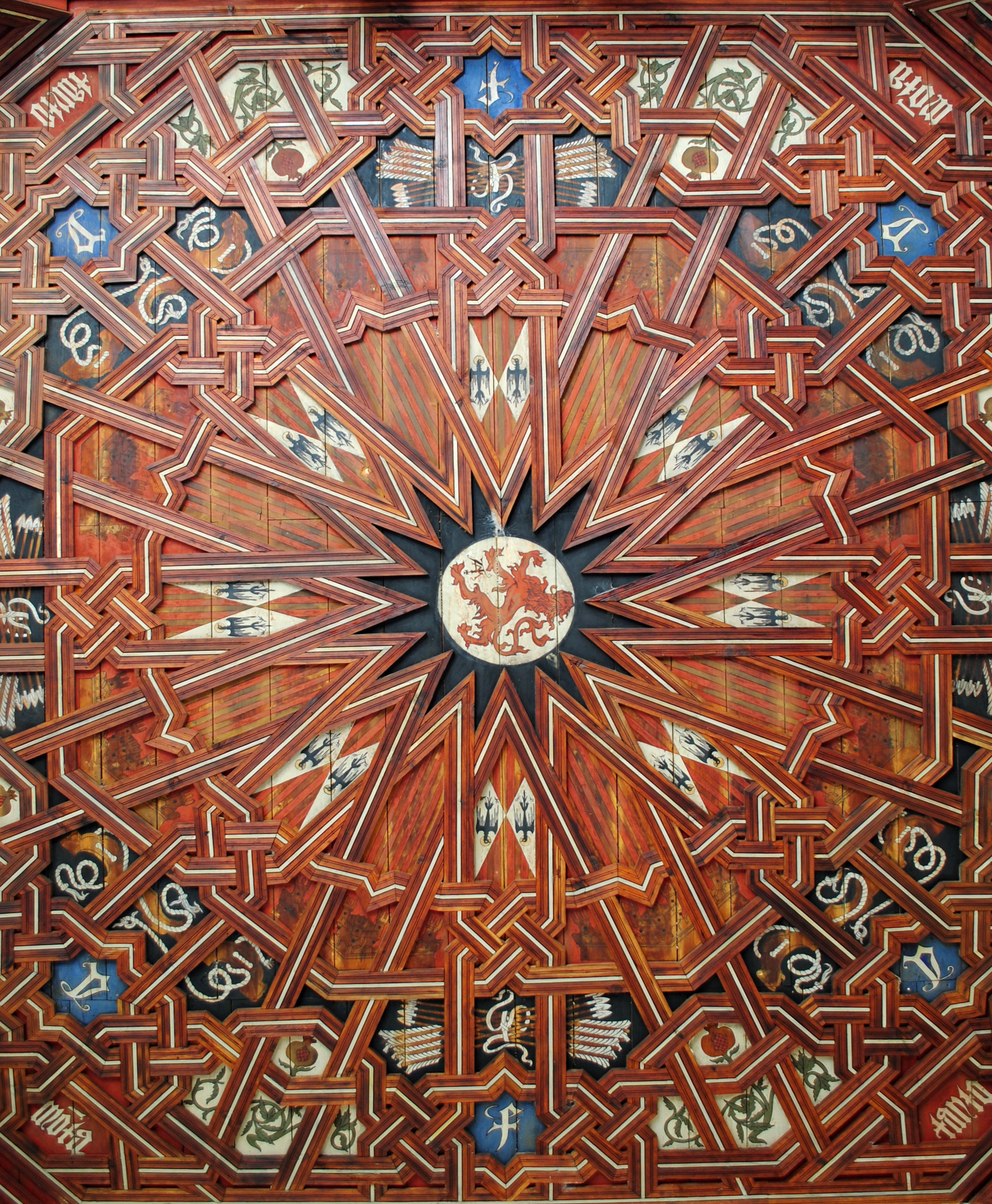 Monasterio de San Juan de los Reyes, Mudejar ceiling, Toledo, Spain.